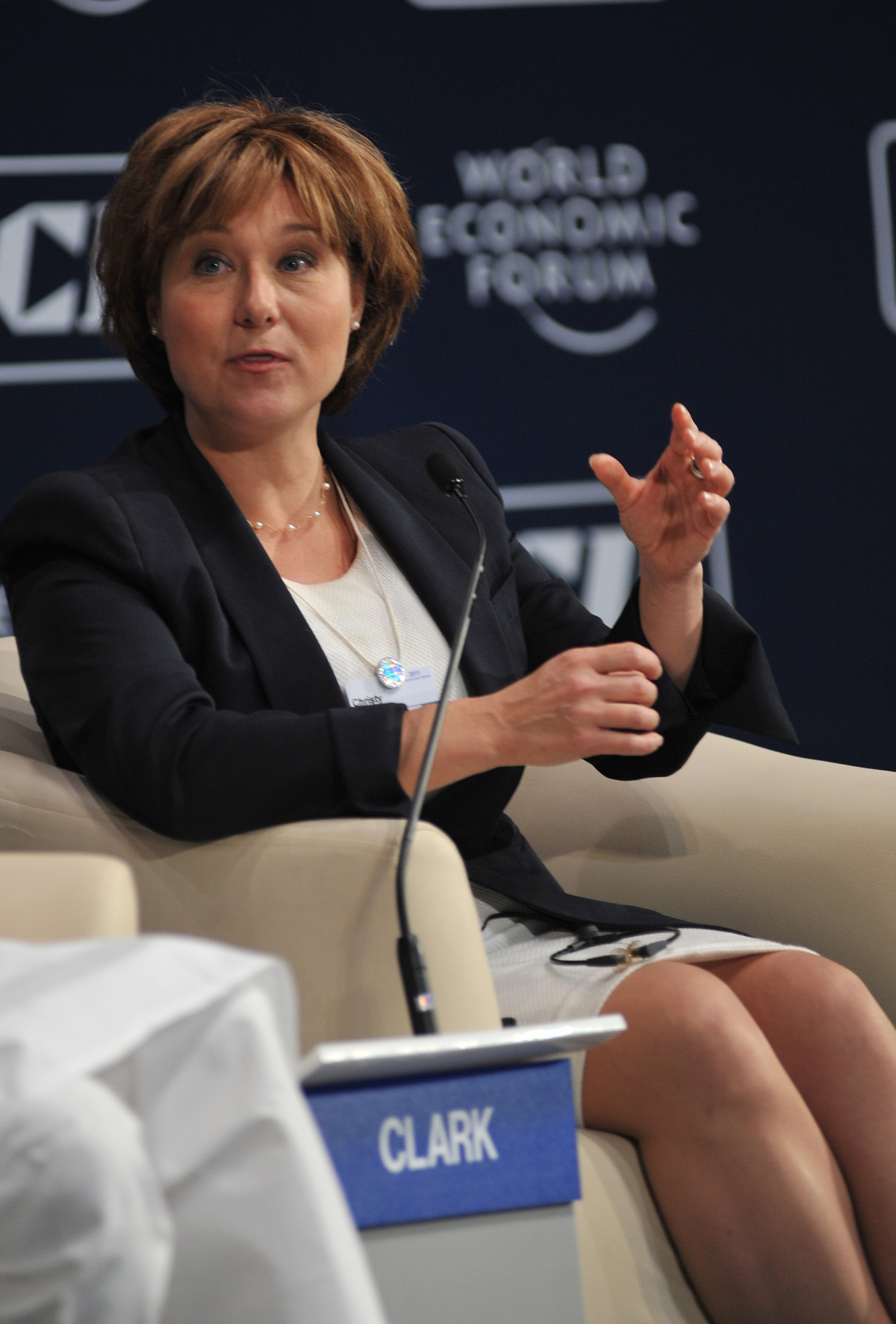 Premier Christy Clark at the India Economic Summit 2011.